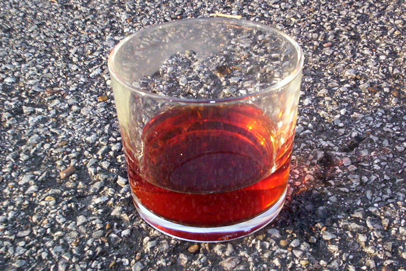 A cup of Twining's Lapsang Souchong, brewed and photographed by me. Deltabeignet 23:38, 16 December 2005 (UTC) New version: Improved focus and lighting. Taken January 19, 2006. Licensing below. Deltabeignet 22:23, 19 January 2006 (UTC)